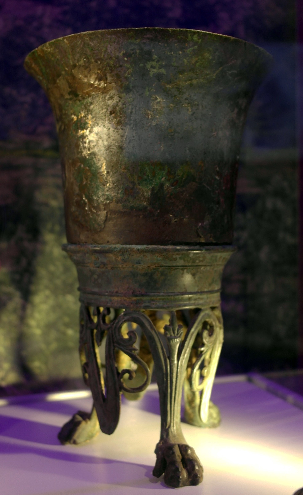 Ancient Roman bronze cup and separate bronze tripod, discovered in 1879 during excavation work at Villa Backerbosch in Cadier en Keer, South Limburg, the Netherlands. The foot is decorated with floral ornaments and animal claws. The object from the 2nd century AD is now in the collection of the Rijksmuseum van Oudheden in Leiden. This photo was taken during the temporary exhibition Topstukken van het Rijksmuseum van Oudheden in the Limburgs Museum in Venlo, while the museum in Leiden was closed for renovations.